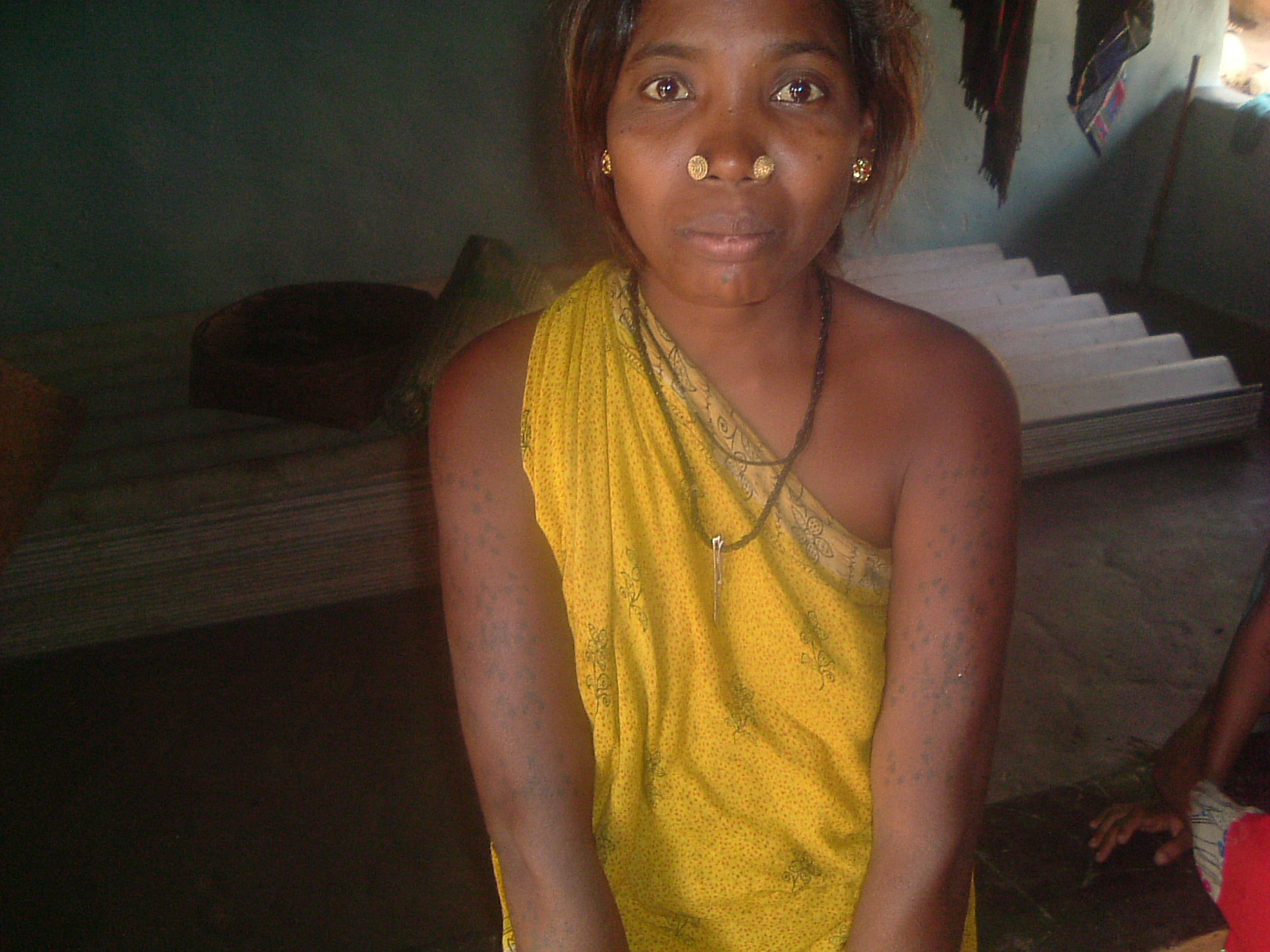 Saura Lady with Tattoo on her arm